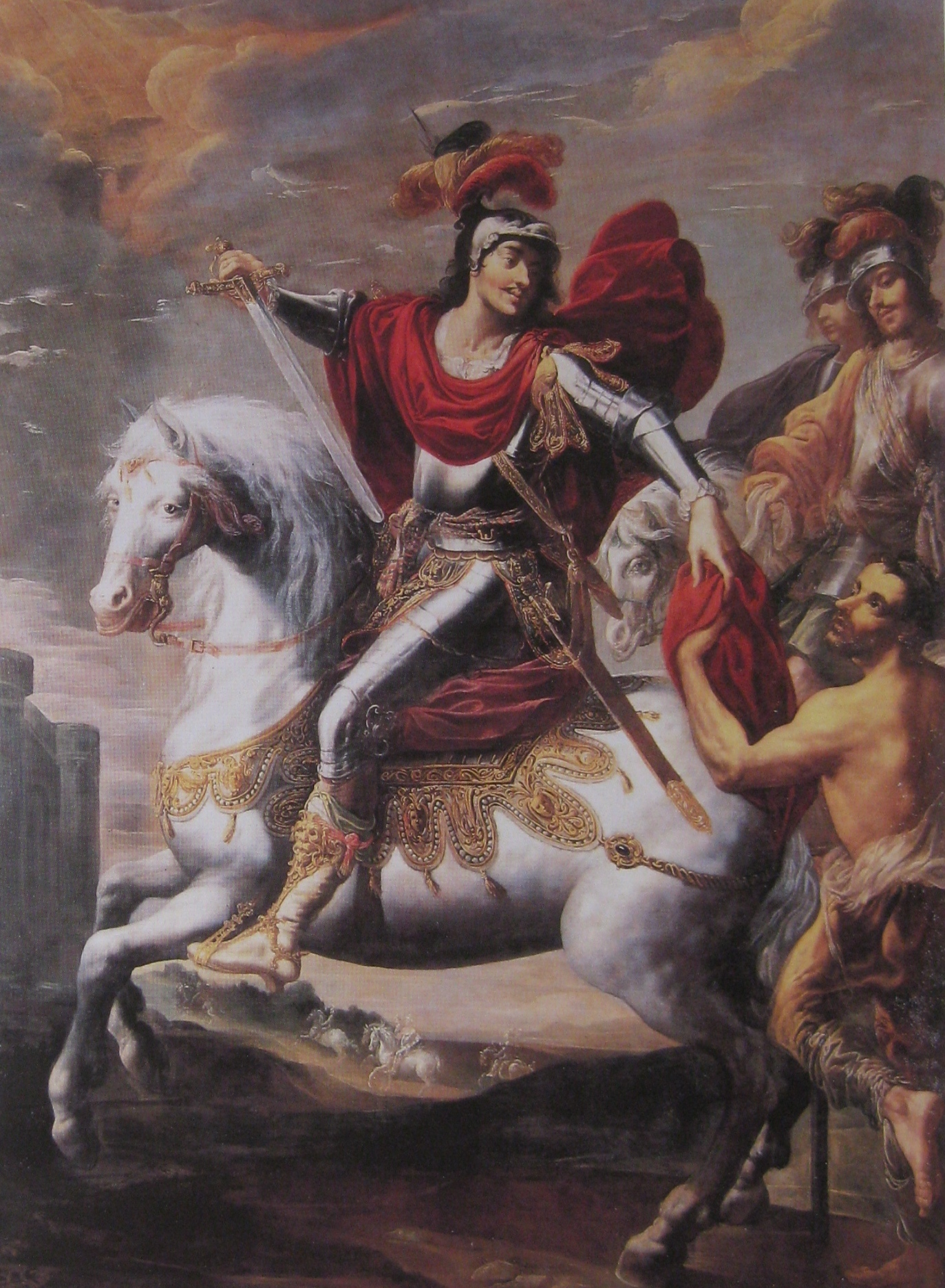 Georges Lallemant, Saint Martin, c. 1625-1636, Paris, Musée Carnavalet